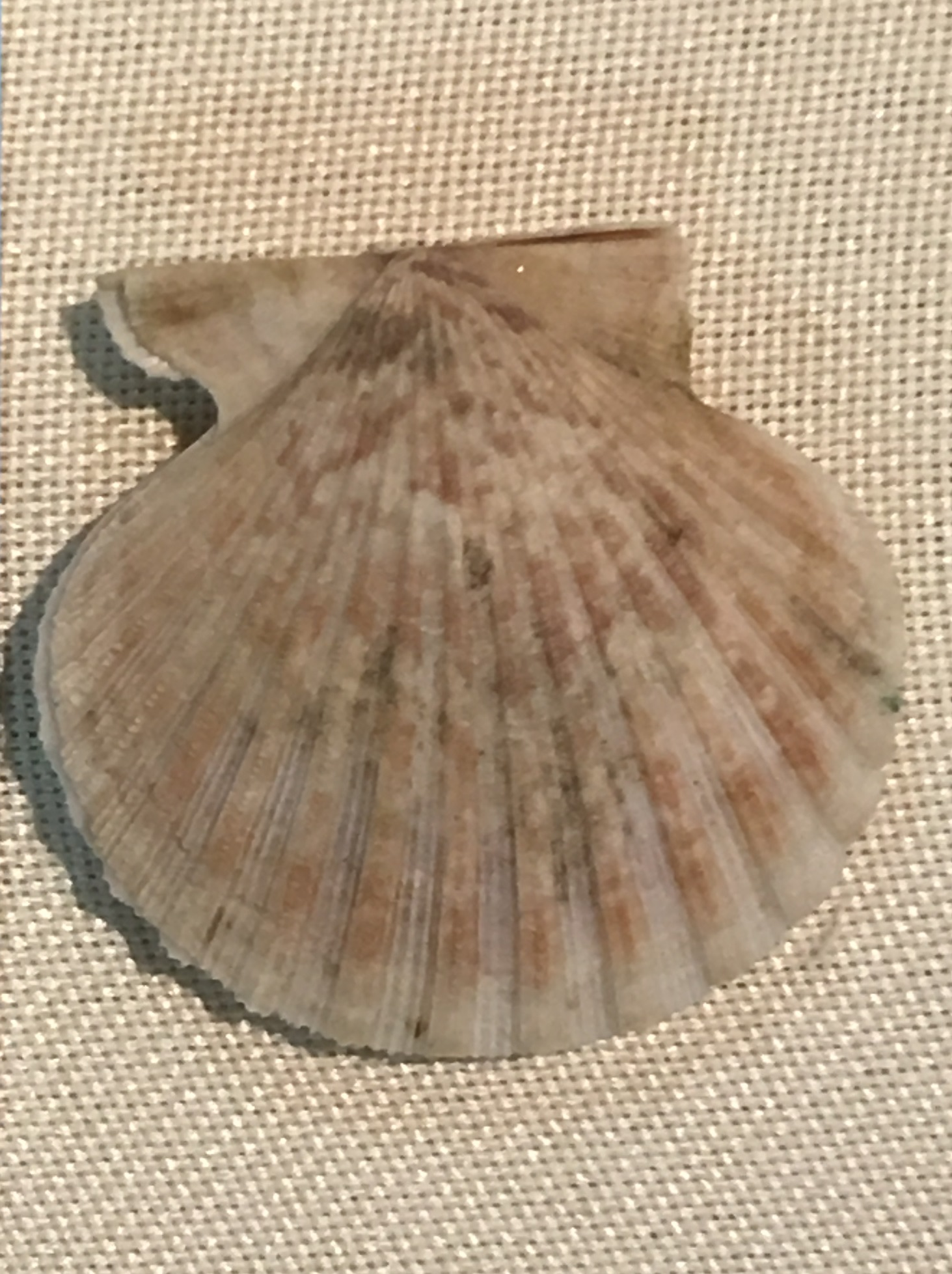 Specimen of shell (Mollusca) from the Gulf of Tonkin, in the Beijing Museum of Natural History (2017). Collection belonging to the Natural History Museum of Guangxi.